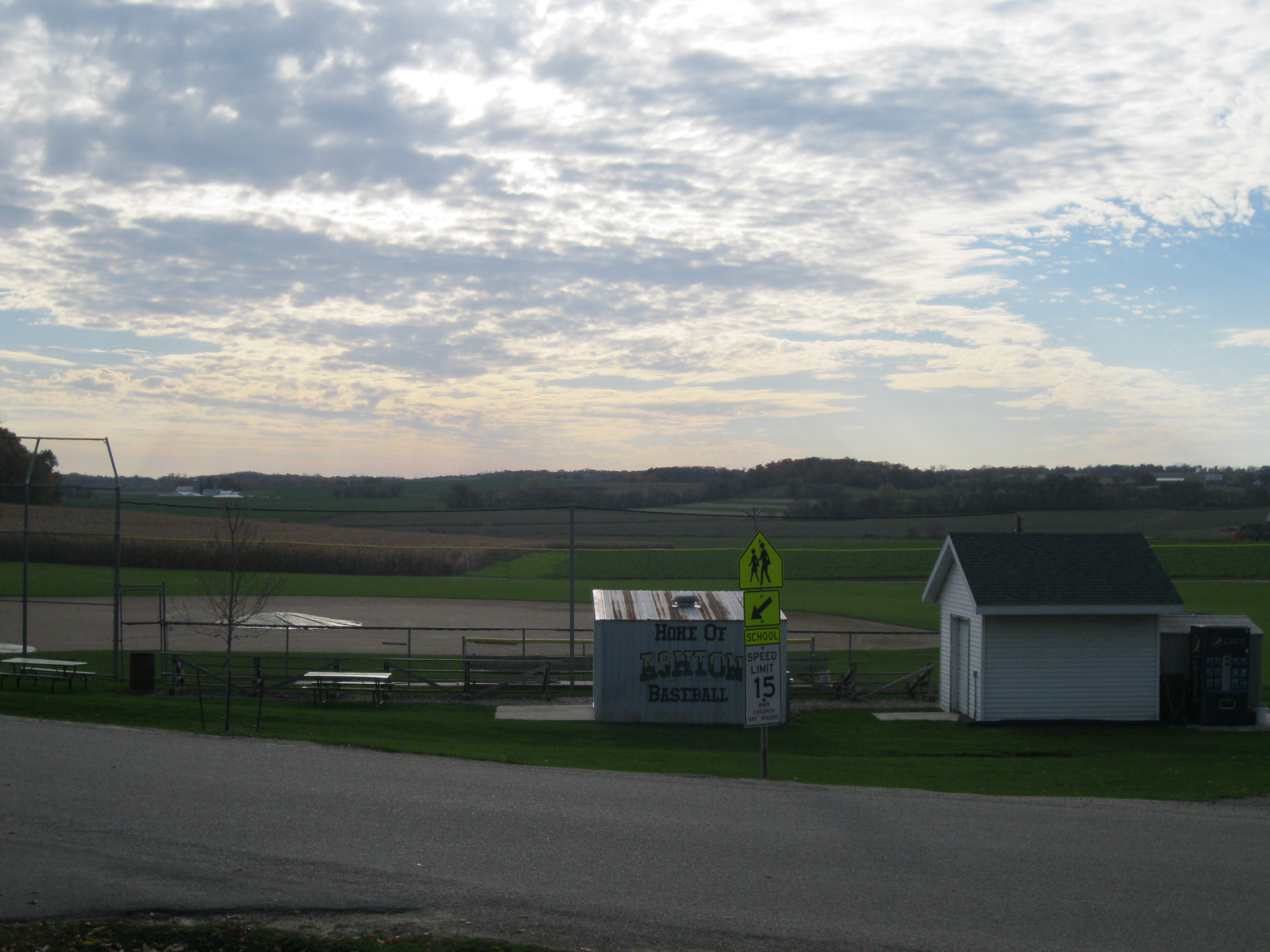 Baseball field in the community of Ashton, Wisconsin.